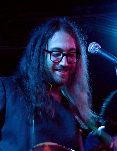 Sean Lennon playing at The Saint in Asbury Park, NJ with his band The Ghost of a Saber Tooth Tiger in September 2013. Photo by LHCollins.